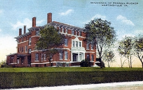 Oak Hall house, built by Col. Pannill Rucker, Martinsville, Virginia. The house burned on 19 February 1917. Rucker was out-of-town on business and his wife and children narrowly escaped the blaze. The house and its contents, all destroyed, were valued at $125,000. The house was replaced by the house Scuffle HIll, later home of the Pannill family. That house is today the parish house of Christ Episcopal Church, Martinsville.